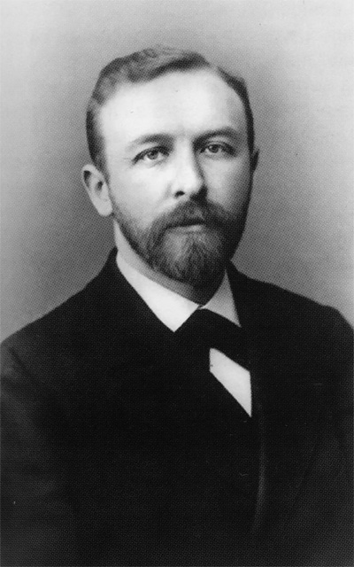 Sergey Ustinovich Solovyov, Russian architect, photo of 1900s.